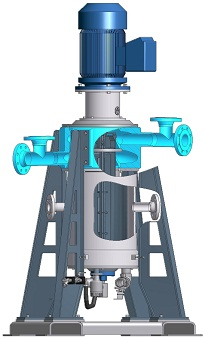 Centrfugal extraktor CS 330 Zentrifugalextraktor CS 330